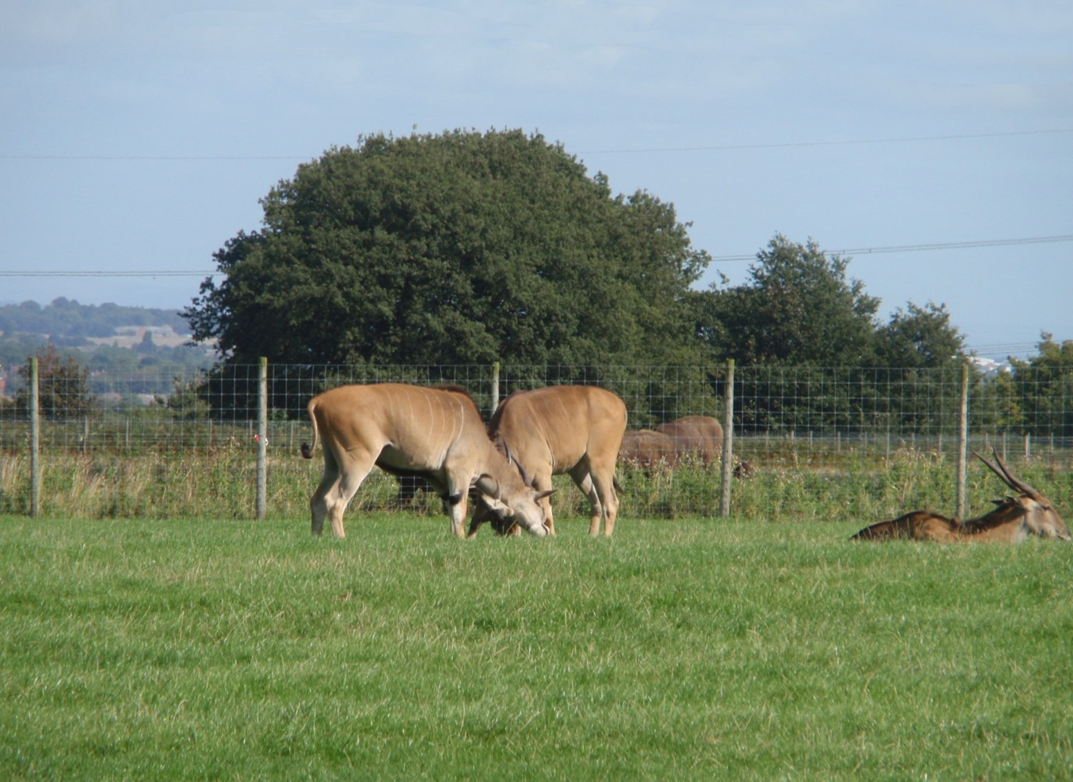 2 male elands fighting, Knowsley Safari Park, 9 September 2009